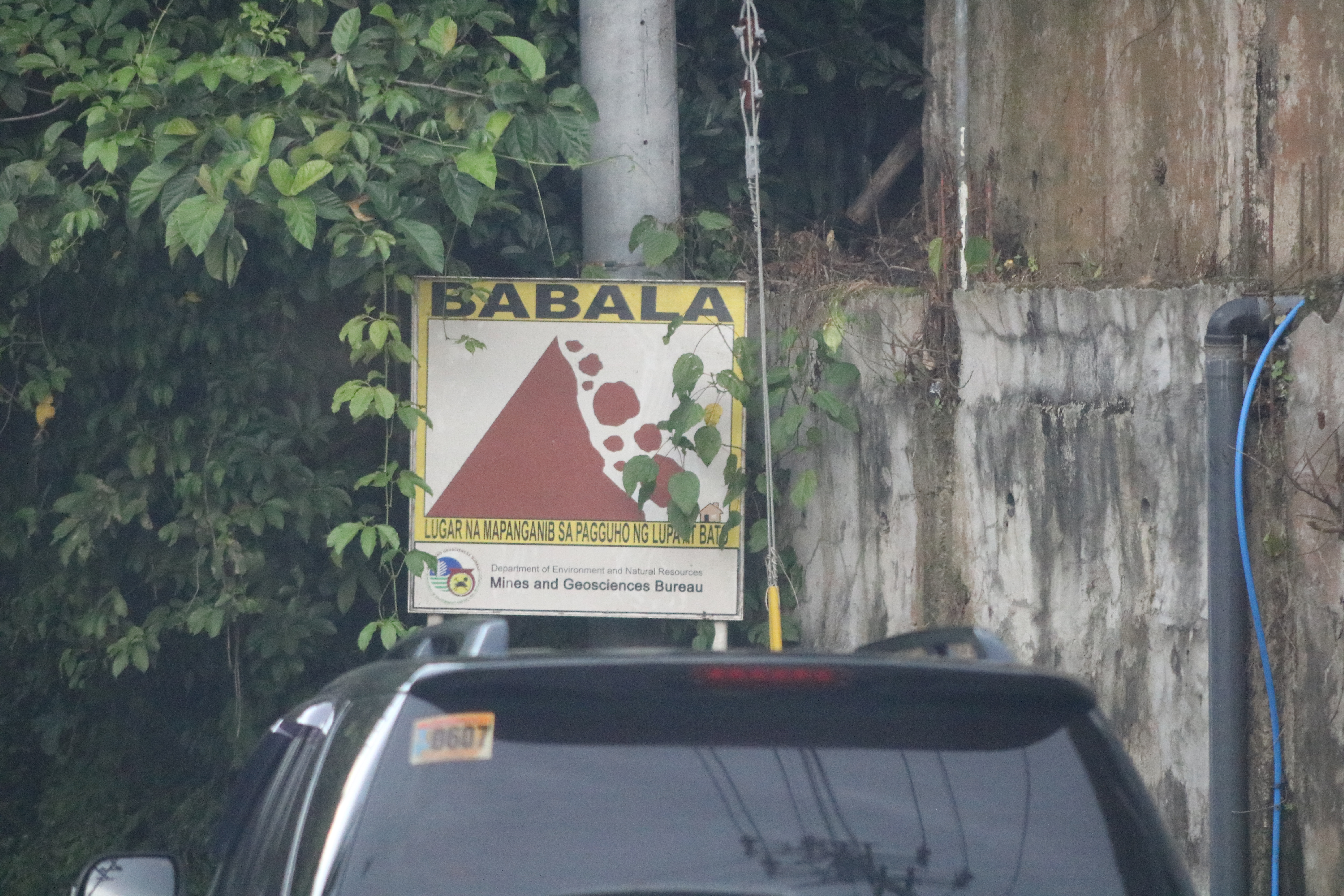 A Tagalog-language landslide and rockslide-prone area sign at Indang, Cavite. Tagalog sign translates as "Danger! Landslide and rockslide-prone area."